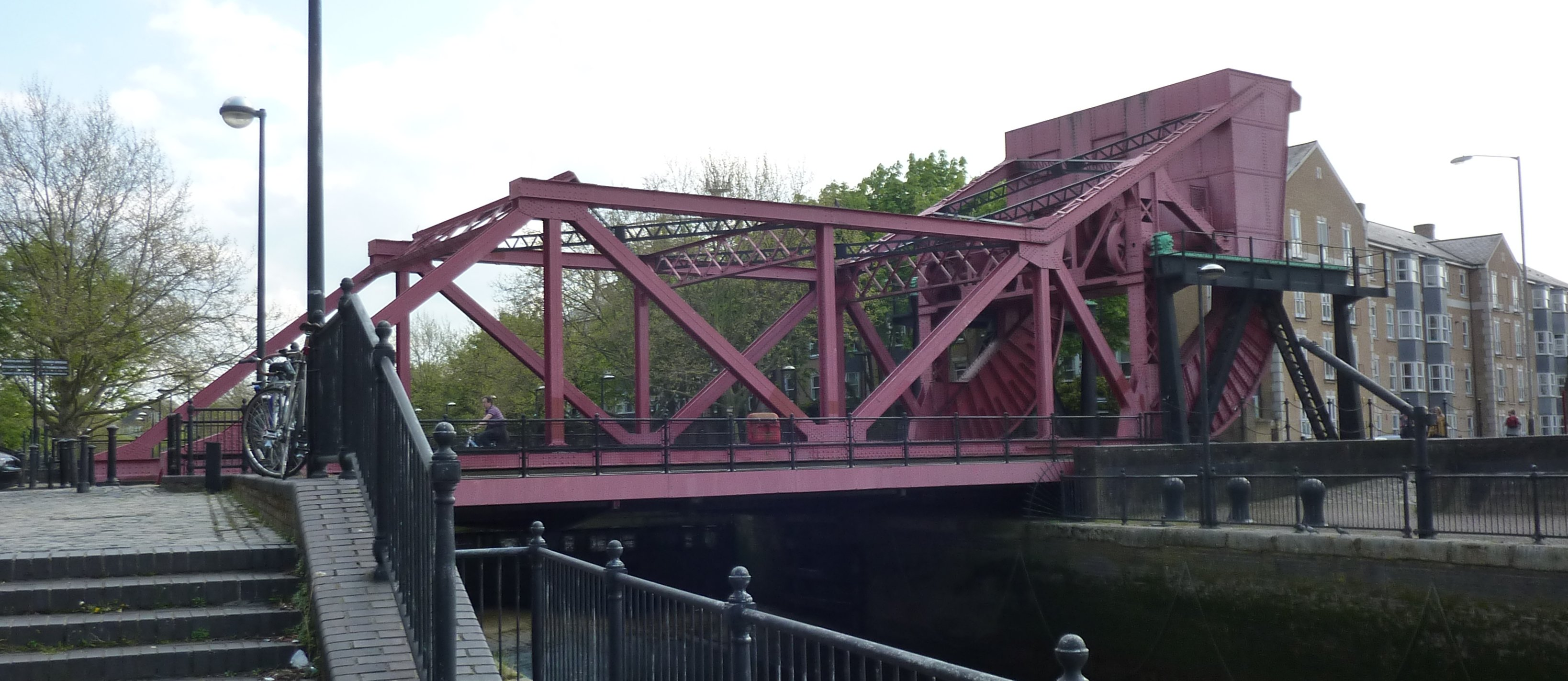 Scherzer rolling lift bridge on Rotherhithe Street over Thames River in London